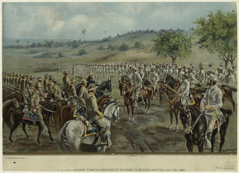 General Toral's surrender of Santiago to General Shafter, July 13th, 1898